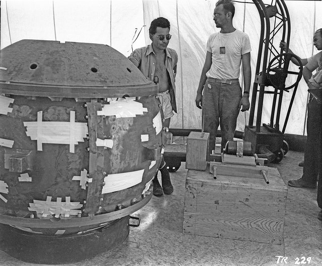 Trinity Site: Louis Slotin and Herbert Lehr with Gadget prior to insertion of tamper plug